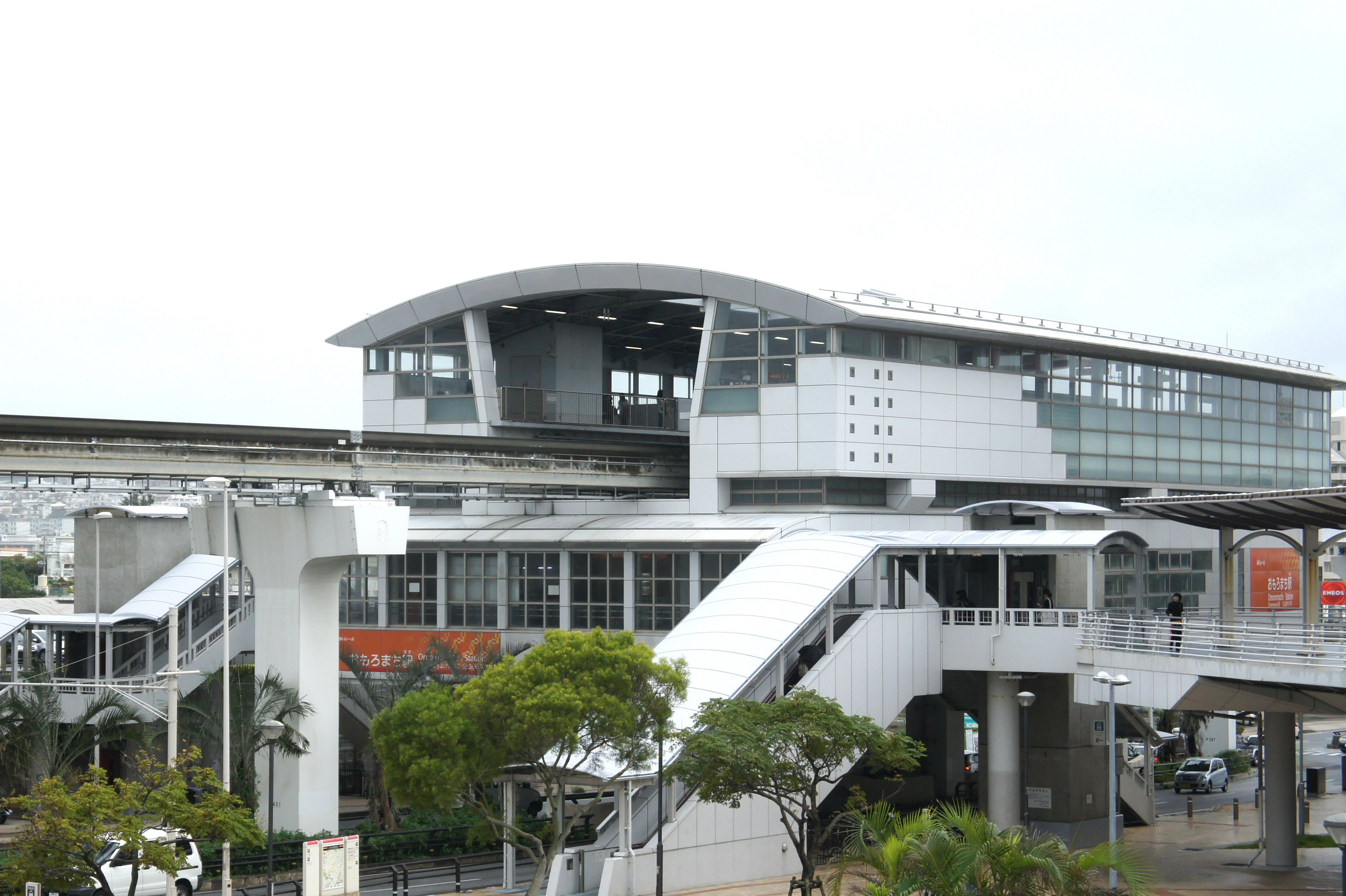 Okinawa City Monorail Line (Yui Rail) Omoromachi Station, Naha, Okinawa.